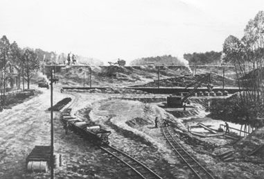 Reconstruction of the Nikolassee in 1910